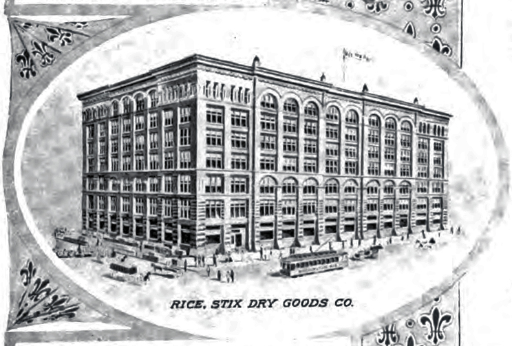 Liggett & Myers/Rice-Stix Building/Merchandise Mart, St. Louis, MO (USA), designed by Isaac Taylor, 1888-89. From "Official souvenir program: St. Louis in the 20th century; a hundred years of progress" (1909).